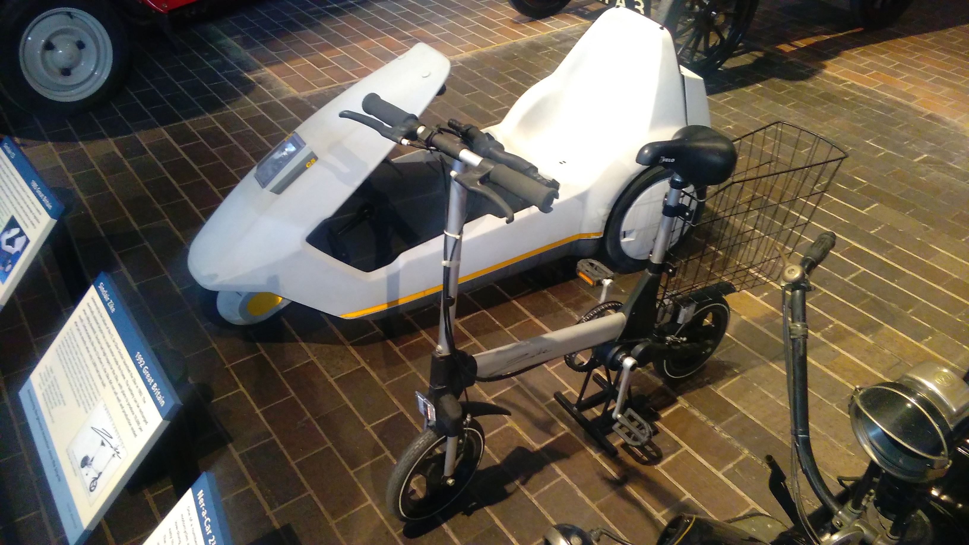 A Sinclair Zike (electric bicycle) with a Sinclair C5 behind it at Beaulieu Motor Museum